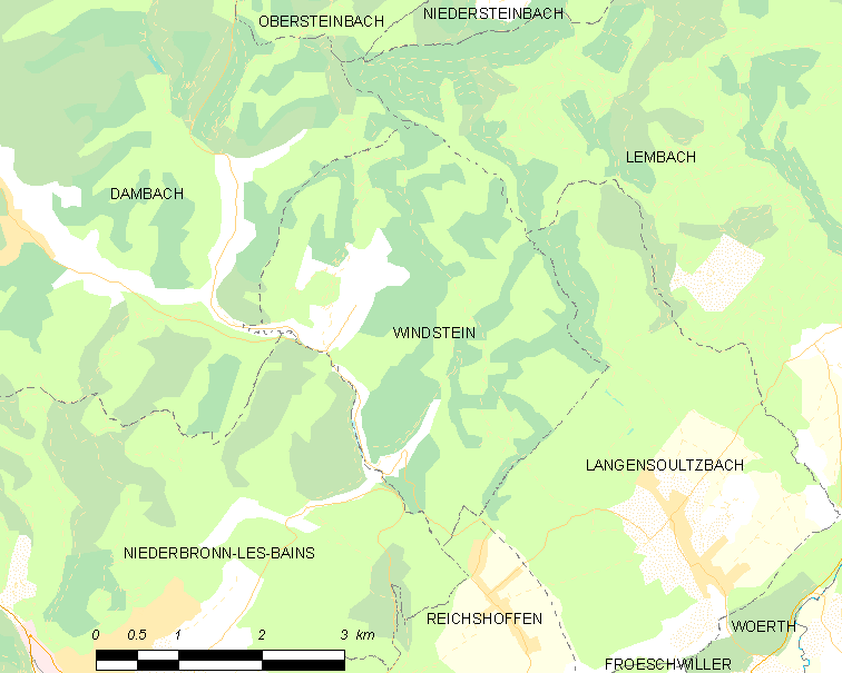 Map of French municipality